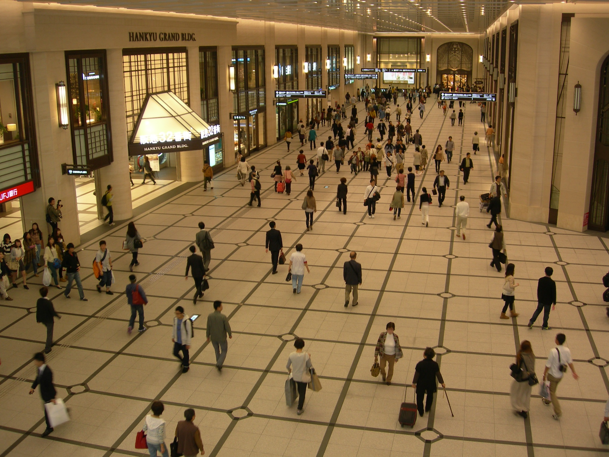 New North and South Concourse, Hankyu Department Stores Umeda main store, Osaka